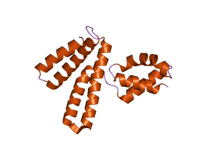 Cartoon representation of the molecular structure of protein registered with 1ng6 code.